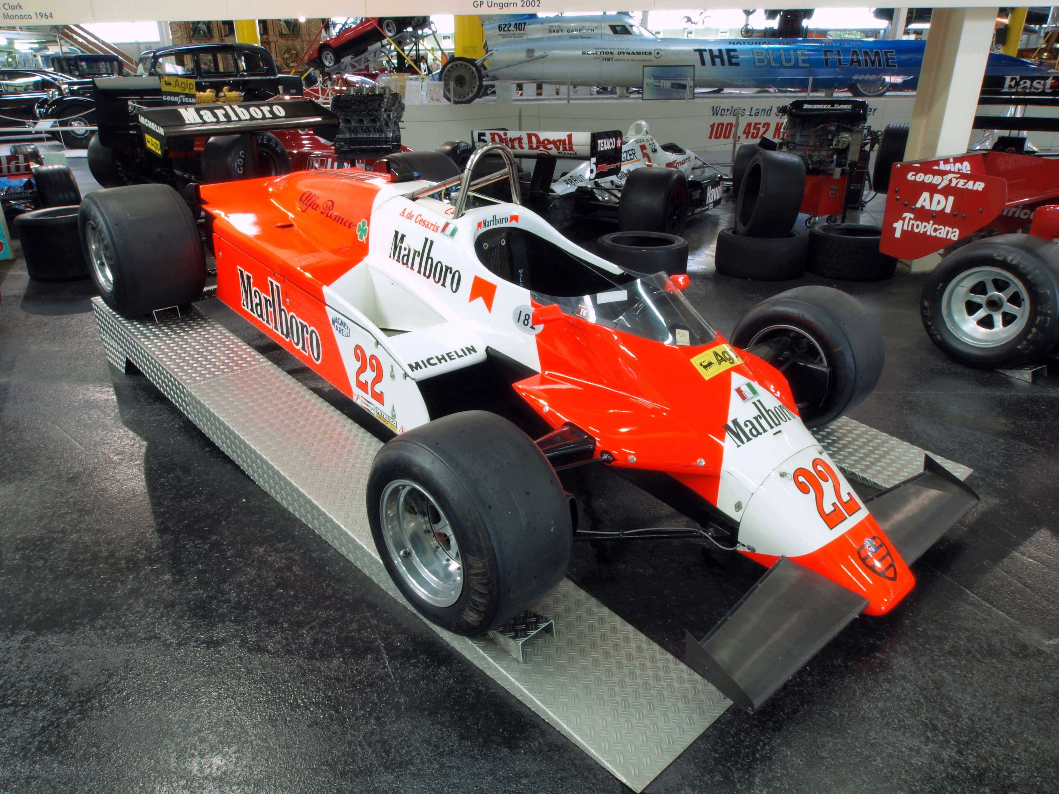 Photographed at the Auto & Technic museum Sinsheim.